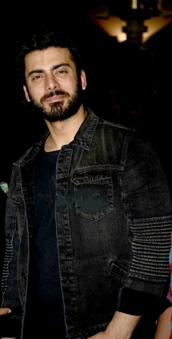 Fawad Khan returns from Chandigarh